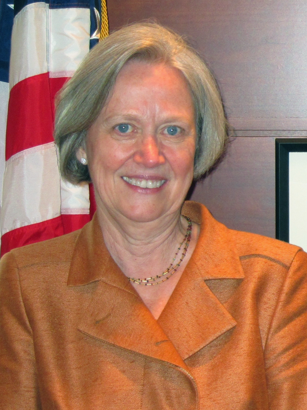 President of Princeton University Shirley Tilghman